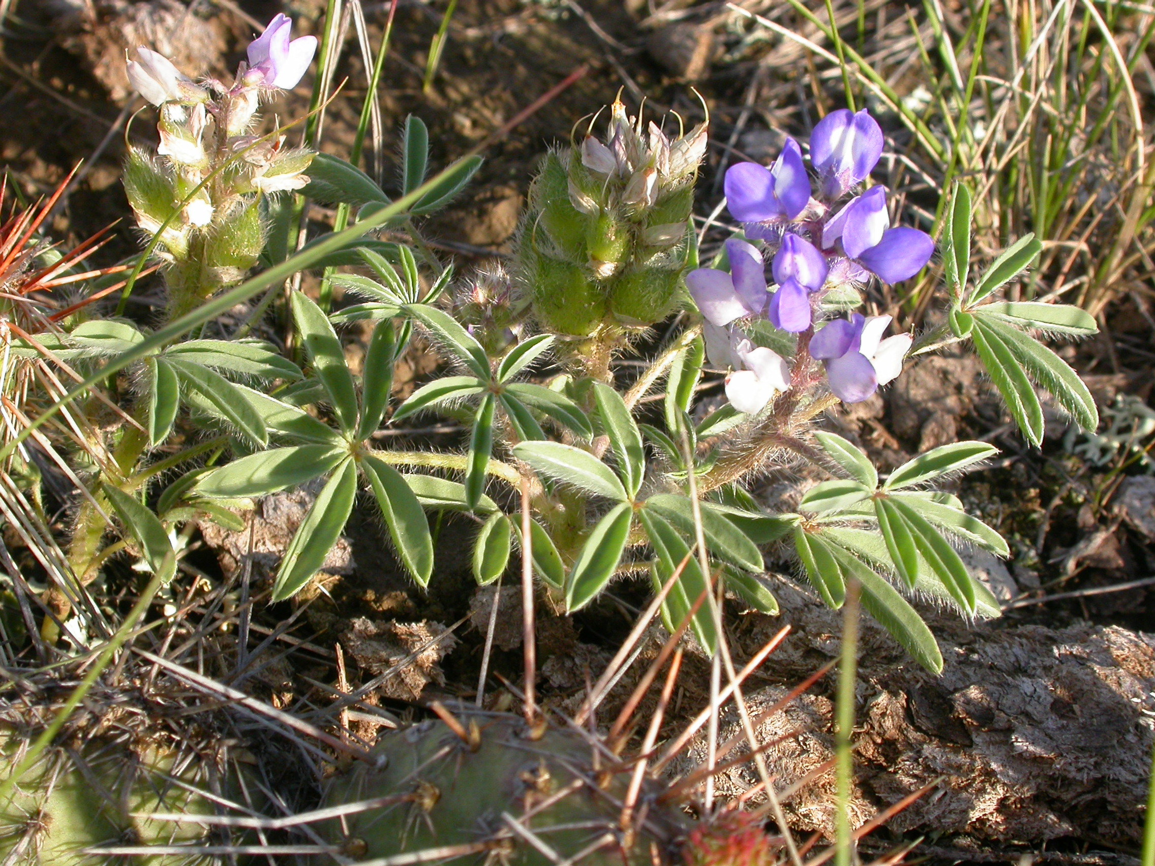 This annual is sporadic in this area and usually on more gravelly soils. The relative scarcity of this species could be a function of the scarcity of sandy soils in this area.